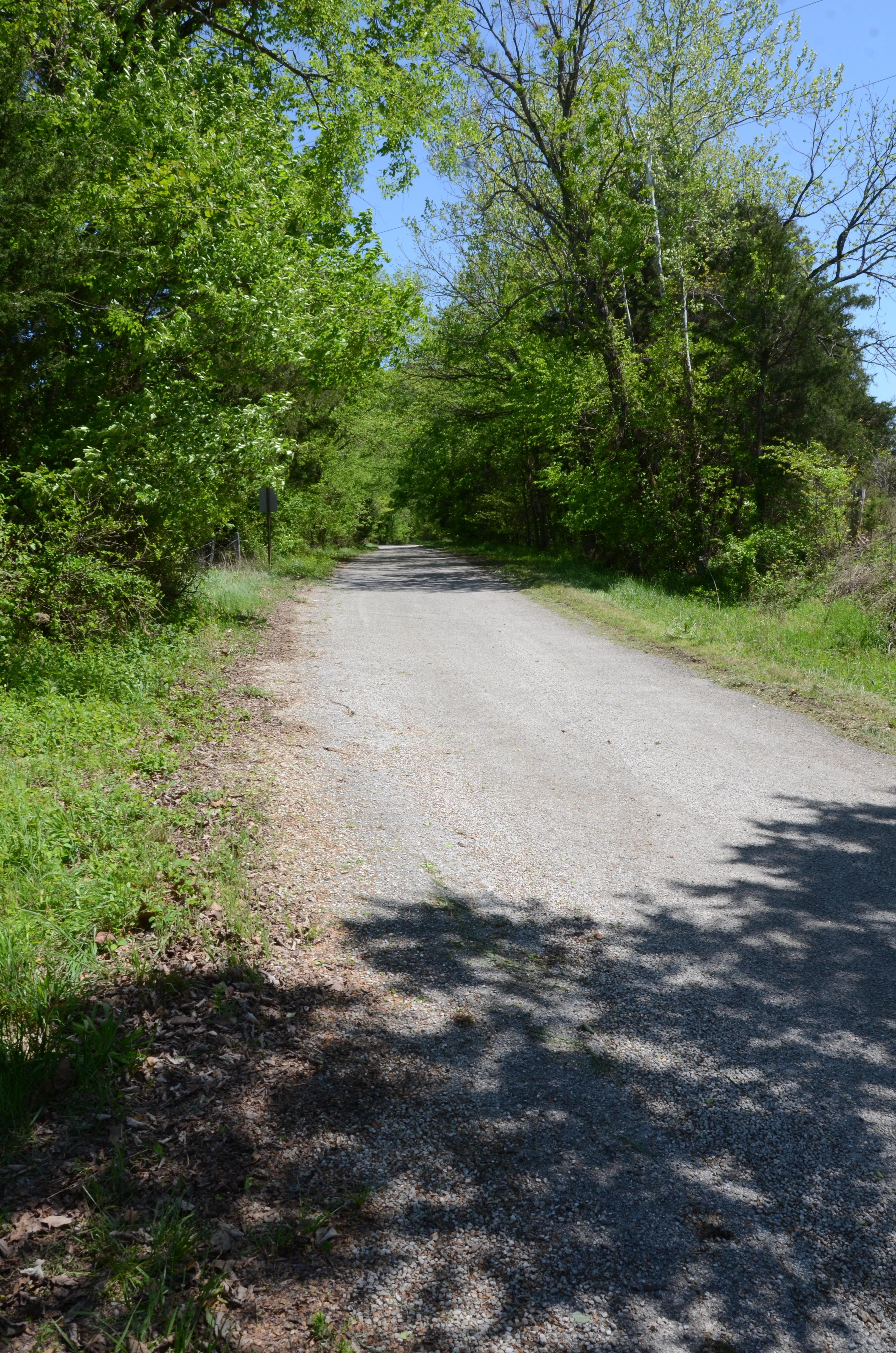 Old U.S. 62, Busch Segment